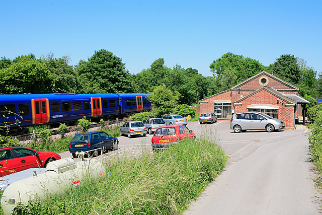 Business Unit next to railway line at Knowle, near to Knowle, Hampshire, Great Britain. I'm not sure if this building may originally have been associated with the Fareham to Botley railway line, but it is now an office.